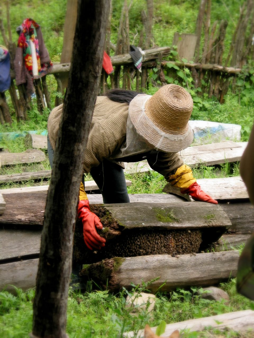 The following is the author's description of the photograph quoted directly from the photograph's Flickr page. "Baima "